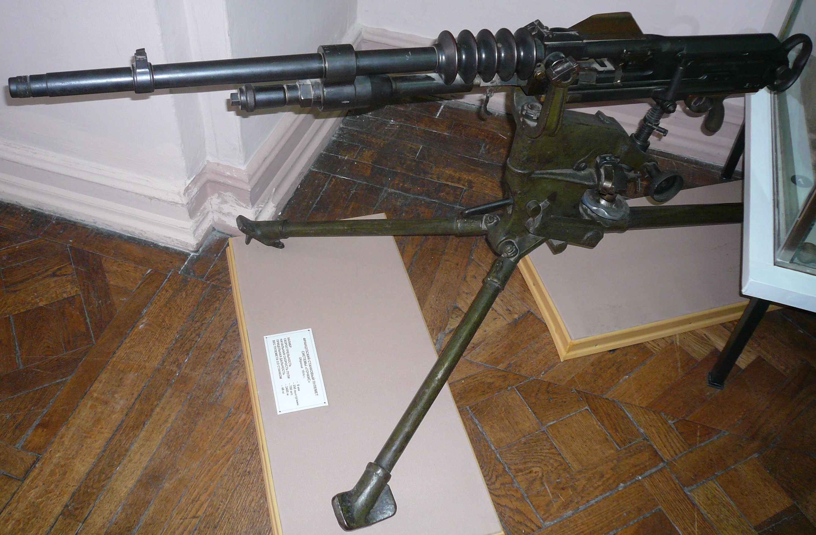 Hotchkiss M1914 machine gun